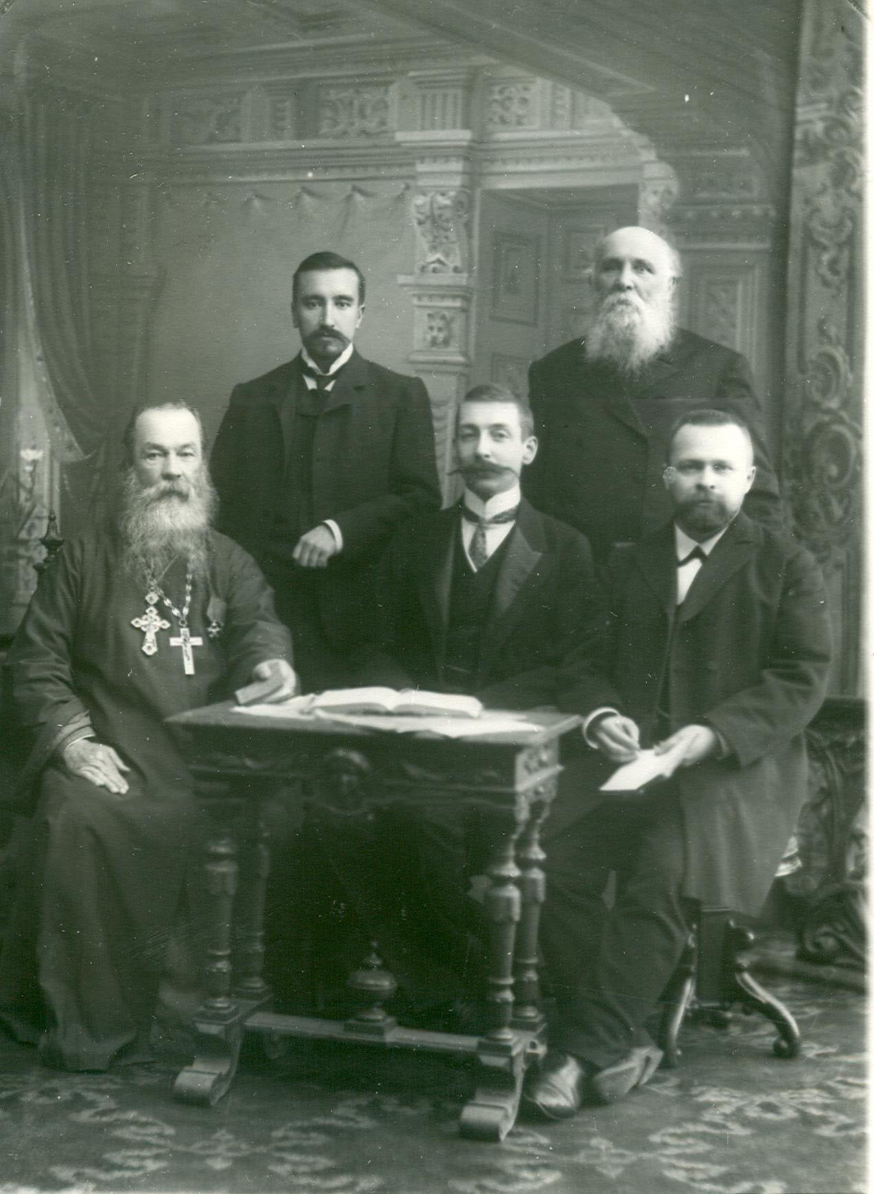 The members of the third Russian State Duma from Yaroslavskaya Governorate, 1907-1912.